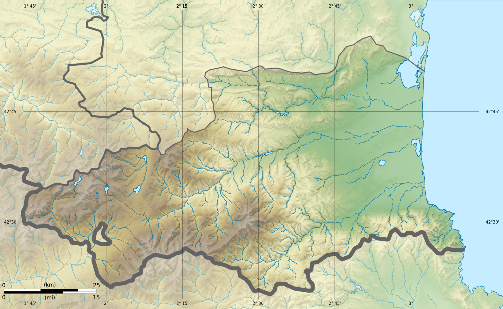 Blank physical map of the department of Pyrénées-Orientales, France, for geo-location purpose.